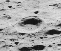 Oblique view of Nijland crater, on the far side of the moon, facing west